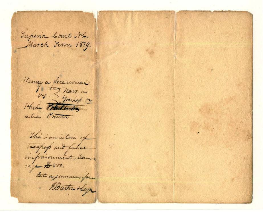 Freedom petition reads, "Superior Court N. C. March Term 1819. Winny a free woman vs Phebe Whiteside alias Pruitt Narr. in Trespass & c This is an action of trespass and false imprisonment- Damage $500. Let a summons issue J. Barton & Geyer"